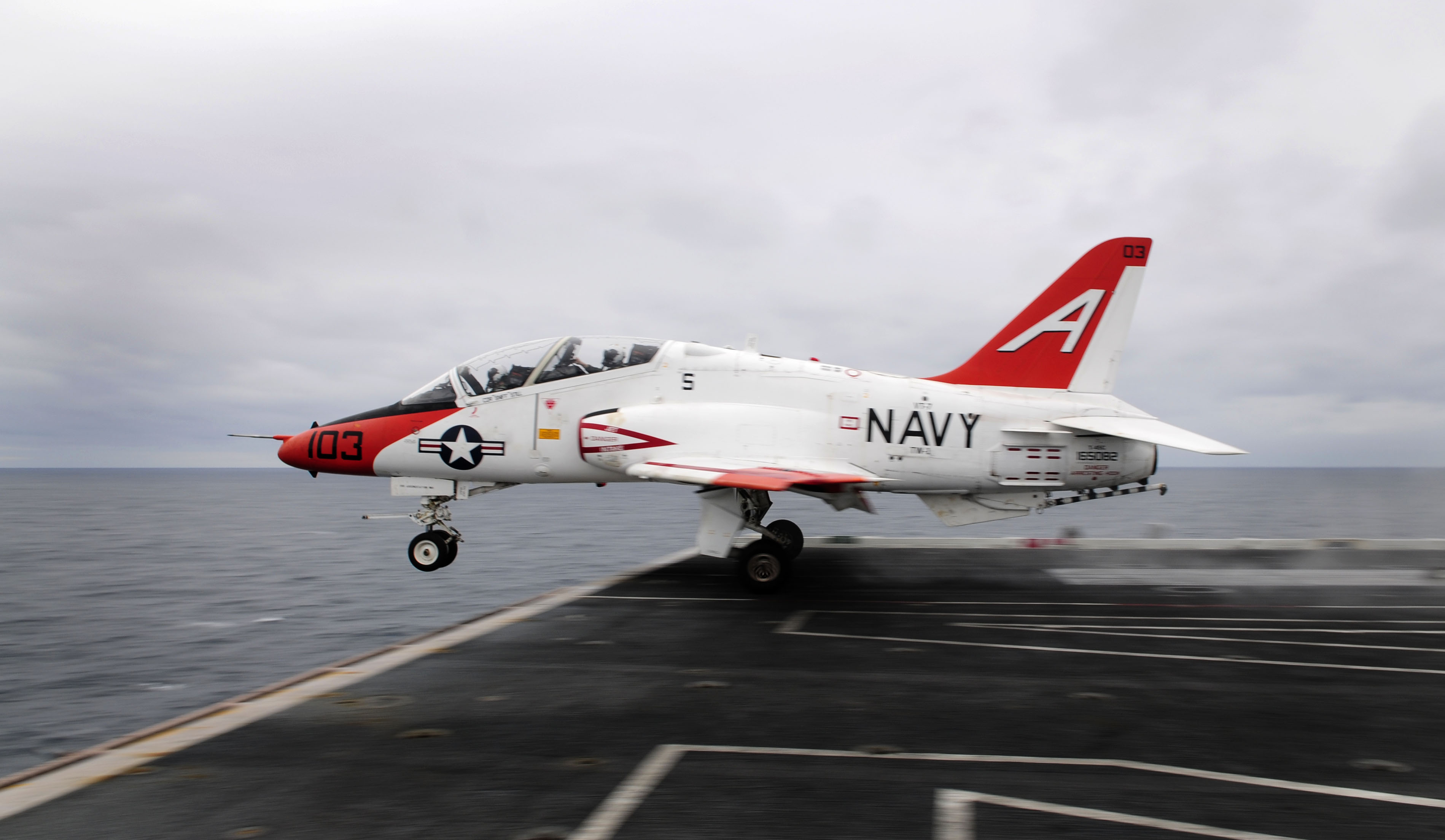 PACIFIC OCEAN (Feb. 4, 2010) Capt. Joseph W. Kuzmick, from Bremerton, Wash., commanding officer of the Nimitz-class aircraft carrier USS John C. Stennis (CVN 74), launches from the ship in a T-45C Goshawk training aircraft assigned to Training Wing (TRAWING) 1. John C. Stennis is underway off the coast of Southern California supporting pilot carrier qualifications for naval air training command. (U.S. Navy photo by Mass Communication Specialist 2nd Class Josue L. Escobosa/Released)